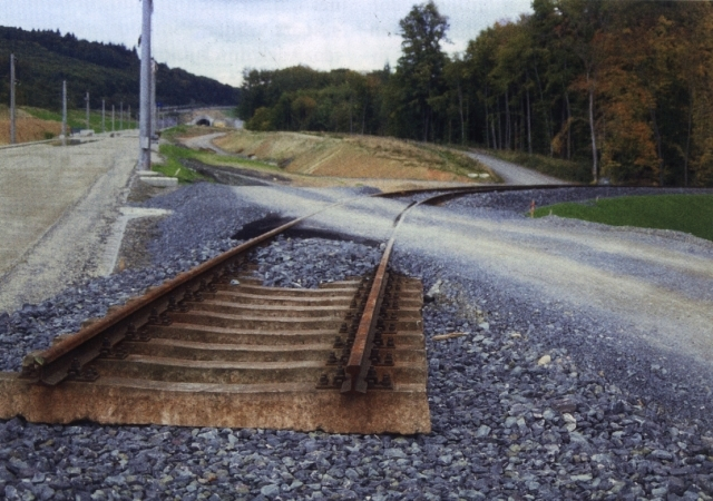 A temporal rail connects the Cologne-Frankfurt high-speed railway line, shown here under construction, with the old Frankfurt-Limburg railway line. This rail had been removed before the high-speed line went into operation in 2002.